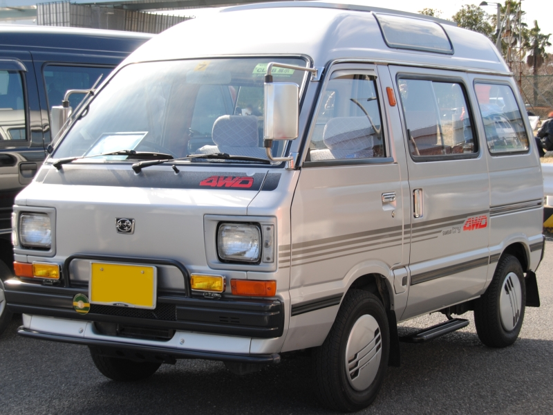 Subaru Samber try TG